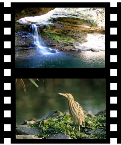 This is a graphical representation of a part of a movie containing a "hard cut".